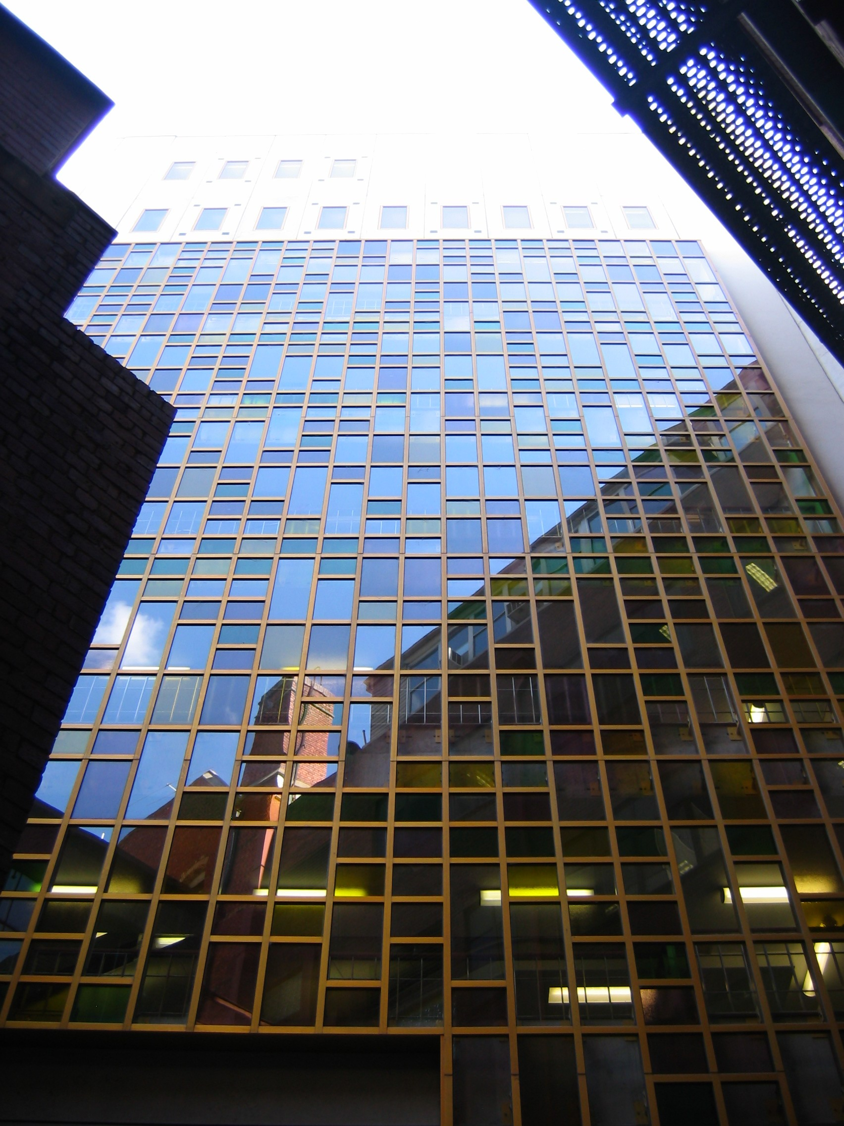 Part of RMIT Building 8.